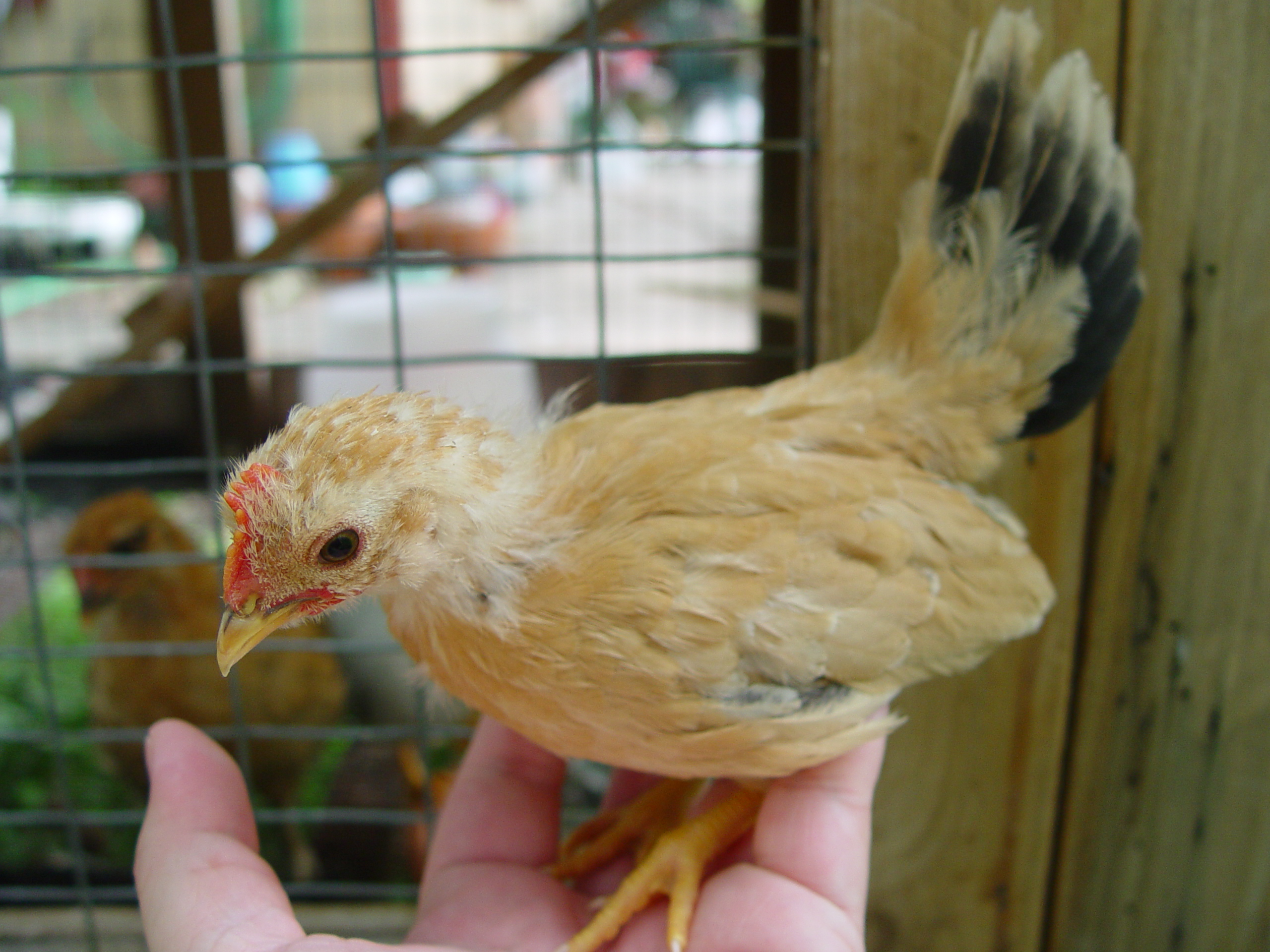 A young Japanese Bantam rooster in February 2002.